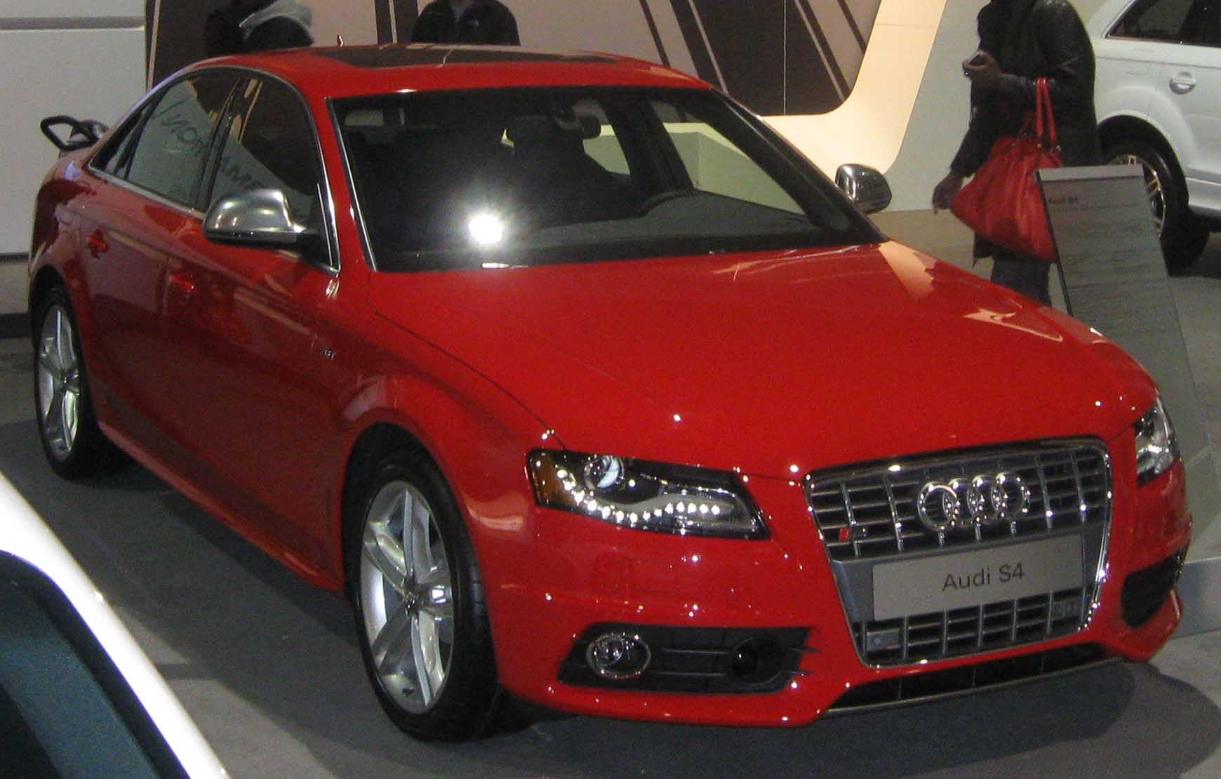 2010 Audi B8 S4 photographed at the 2009 Washington DC Auto Show.